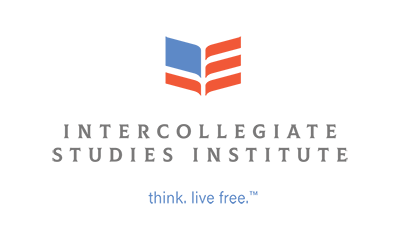 The Intercollegiate Studies Institute logo is comprised of an open book in the colors of the American flag.